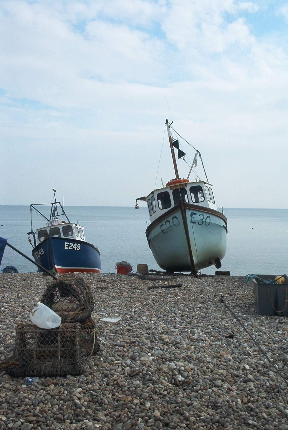 Photographer: User:Ballista